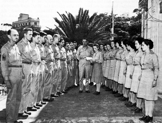 Maj. Westray Battle Boyce, WAAC Staff Director, North African Theater, reads orders replacing enlisted men of the adjutant general's office with enlisted women, Algiers, North Africa.